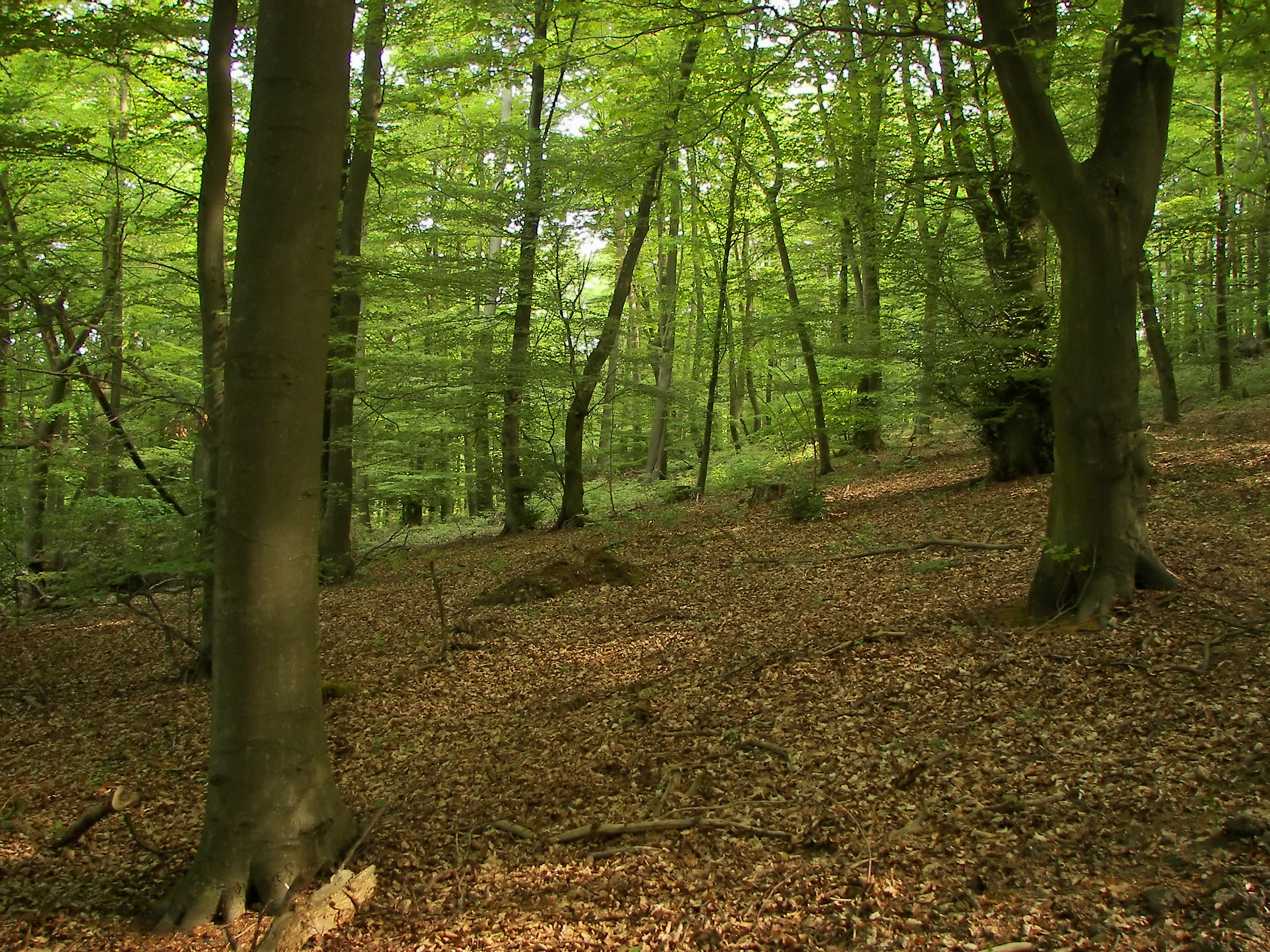 Kellerwald near Vöhl-Schmittlothheim, Hesse, Germany